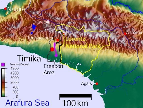 Freeport Contract Area and Lorentz National Park in West Papua